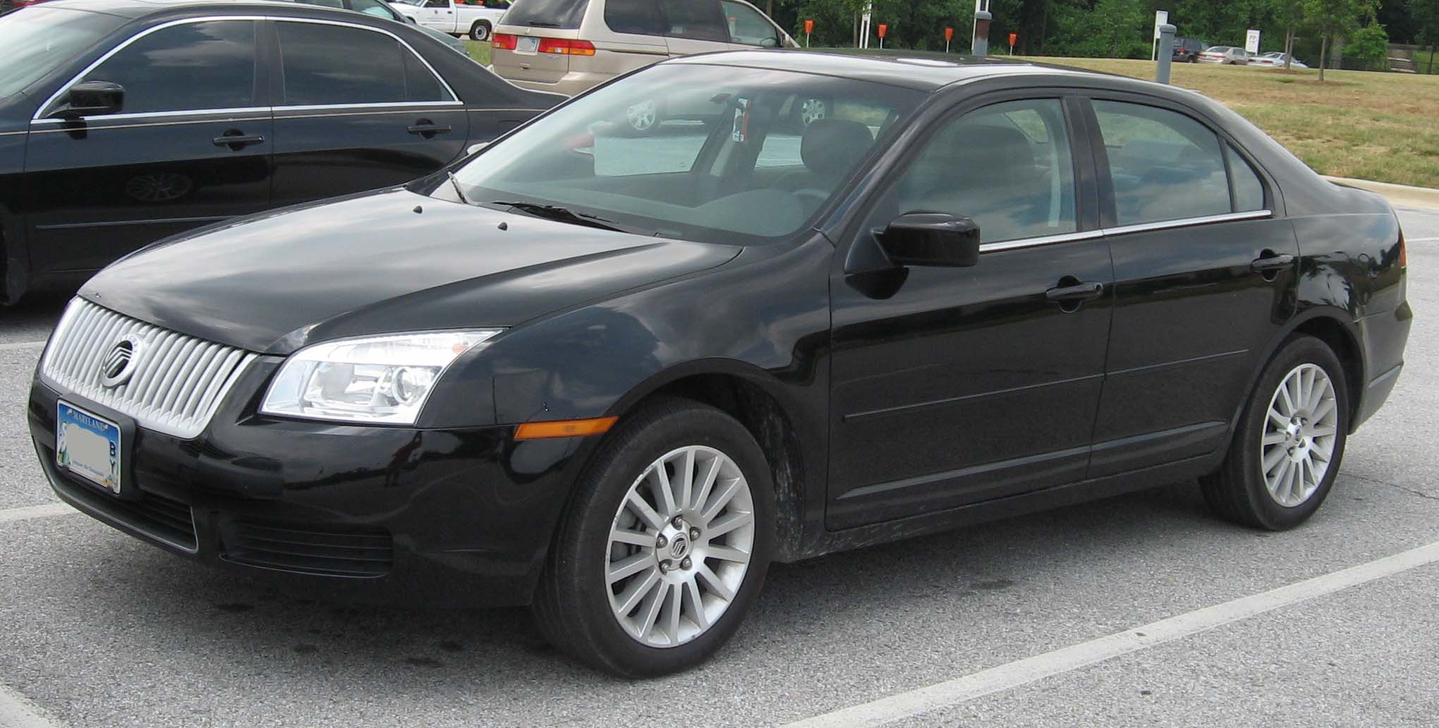 2006-2007 Mercury Milan photographed in USA.